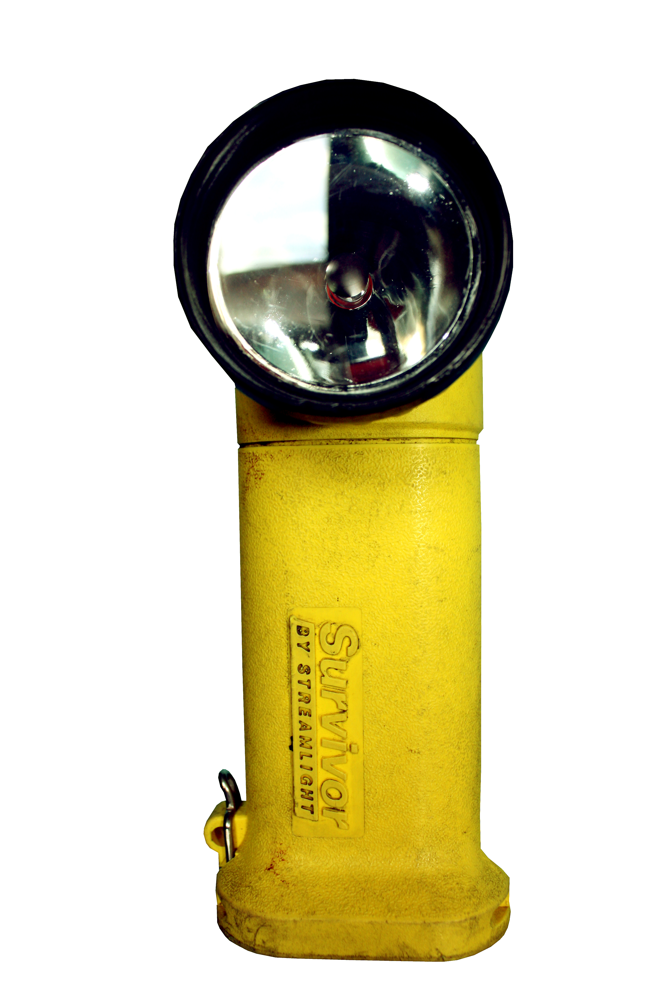 Flashlight made of Nylon and Lexan